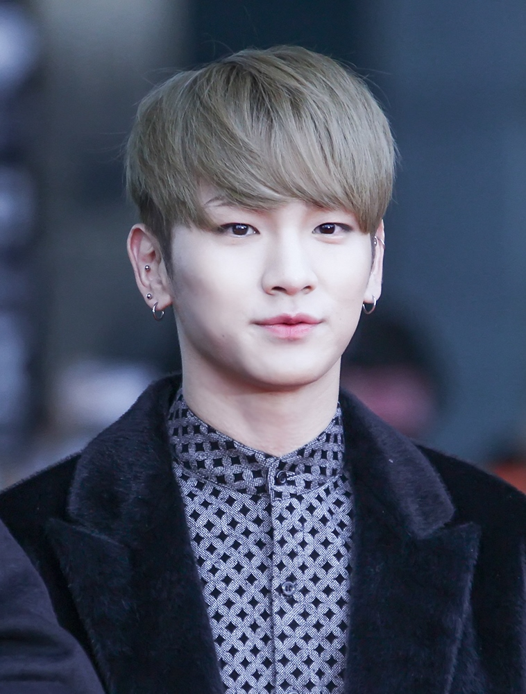 Key at the Opening's SMTown Coex Artium on January 13, 2015.